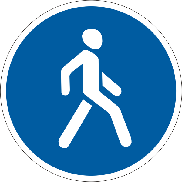 Pedestrian path.